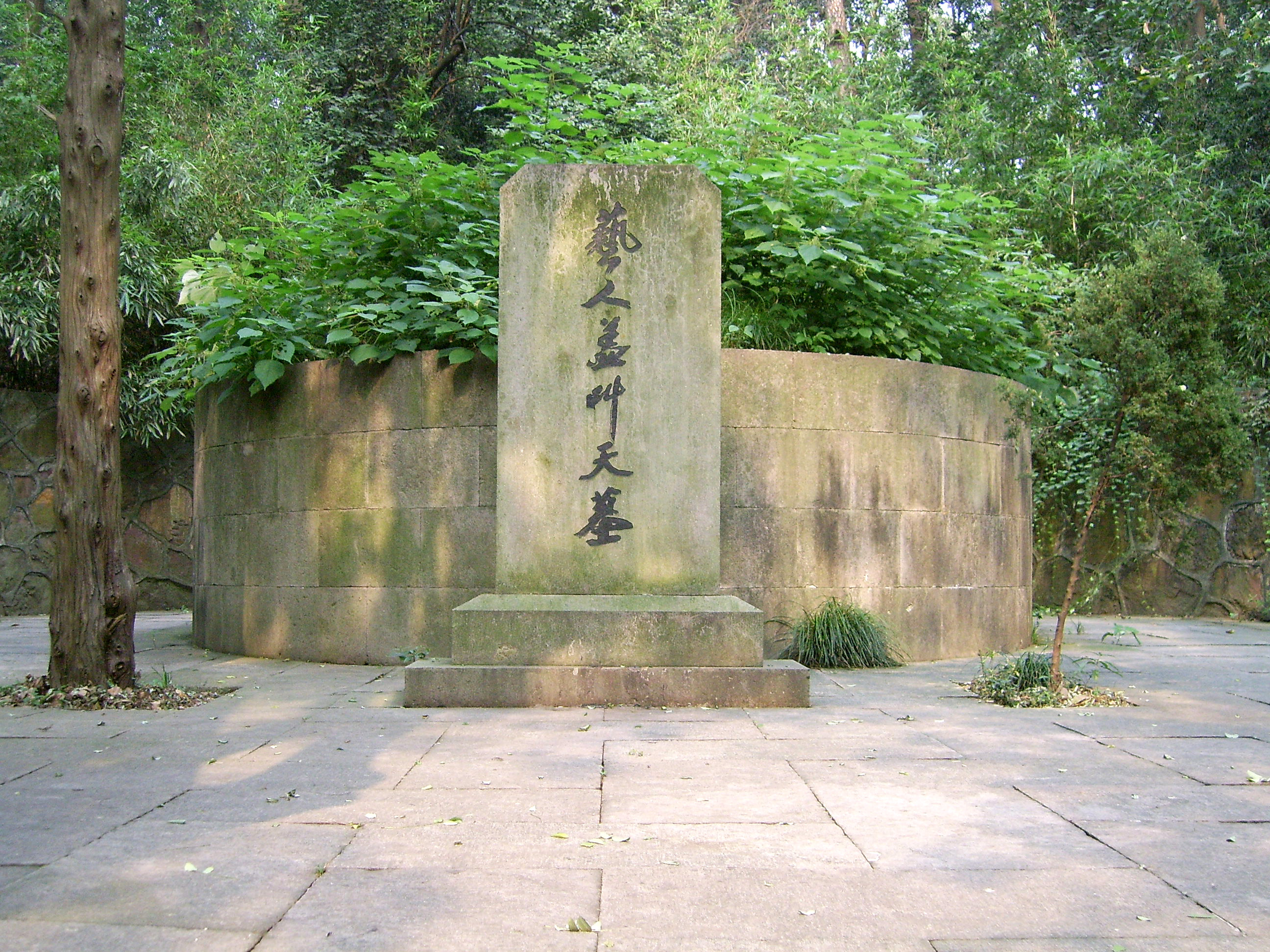 Tomb of Gai Jiaotian